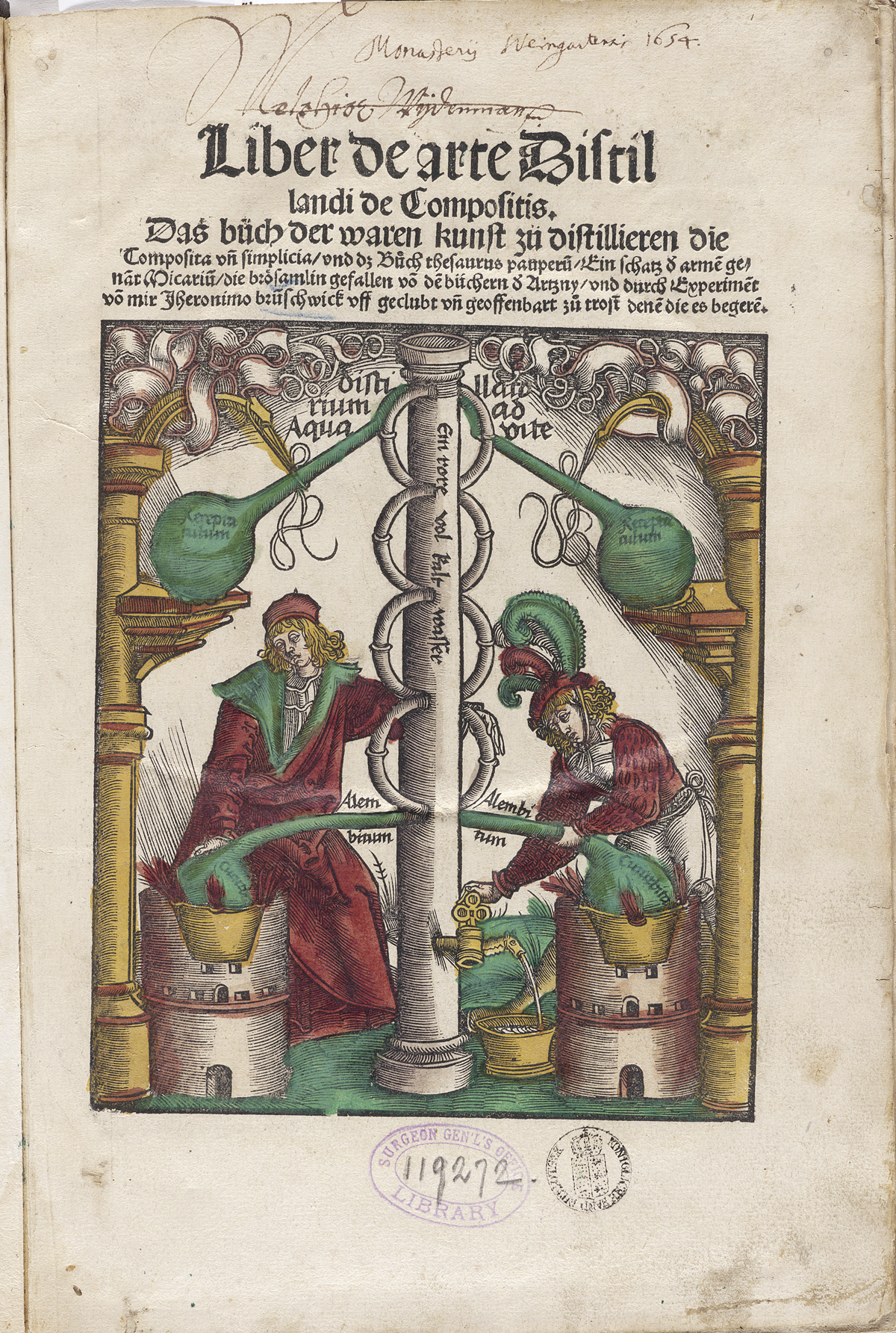 the title page of Brunschwig's famous work, Liber de arte distillandi simplicia et composita. Part of the National Library of Medicine's "Turning the Pages" project, which digitizes older medical texts that should no longer be physically handled